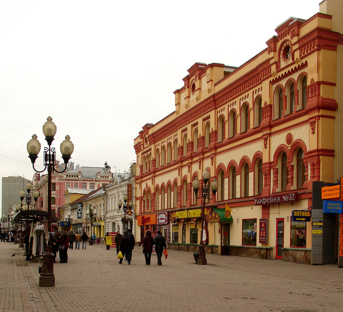 Arbat Street, Moscow